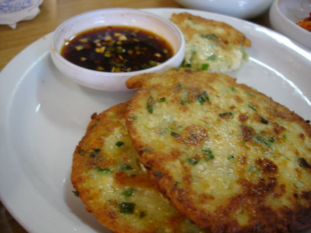 Dubu jeon, a Korean pancake made with tofu, wheat flour, eggs, and vegetables.